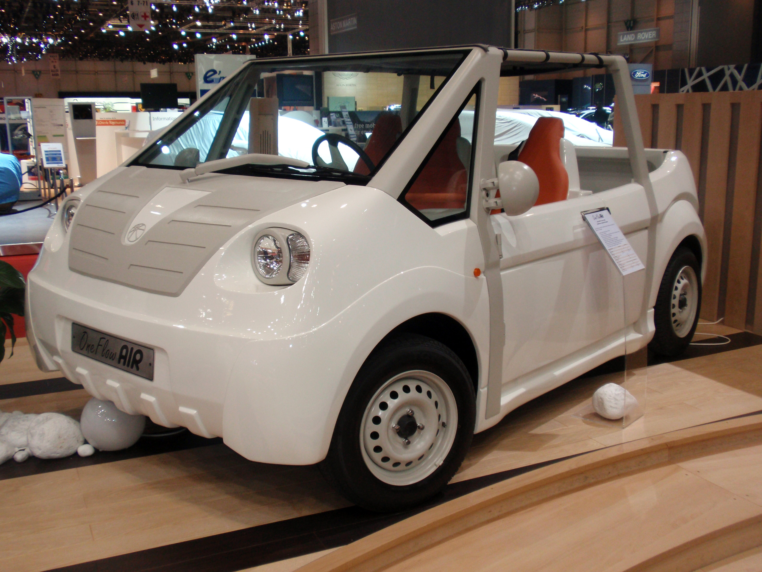 MDI OneFlowAir at the 2009 Geneva Motor Show